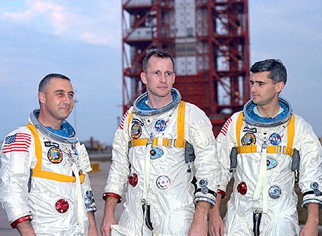 Apollo 1 Crew, Grissom, White, Chaffee (NASA)